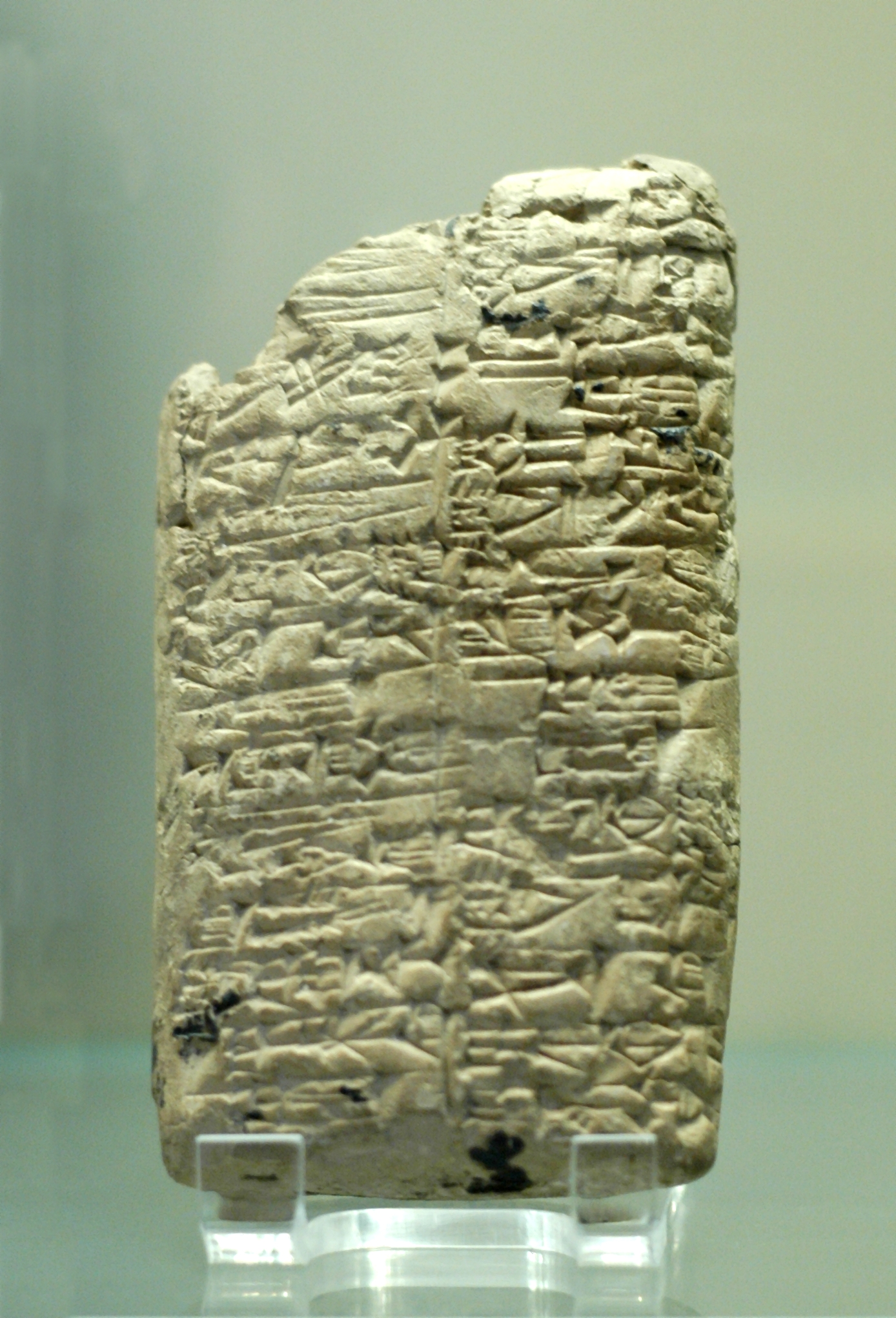 List of the victories of Rimush, king of Akkad, upon Abalgamash, king of Marhashi, and upon Elamite cities. Clay tablet, copy of a monumental inscription, ca. 2270 BC.